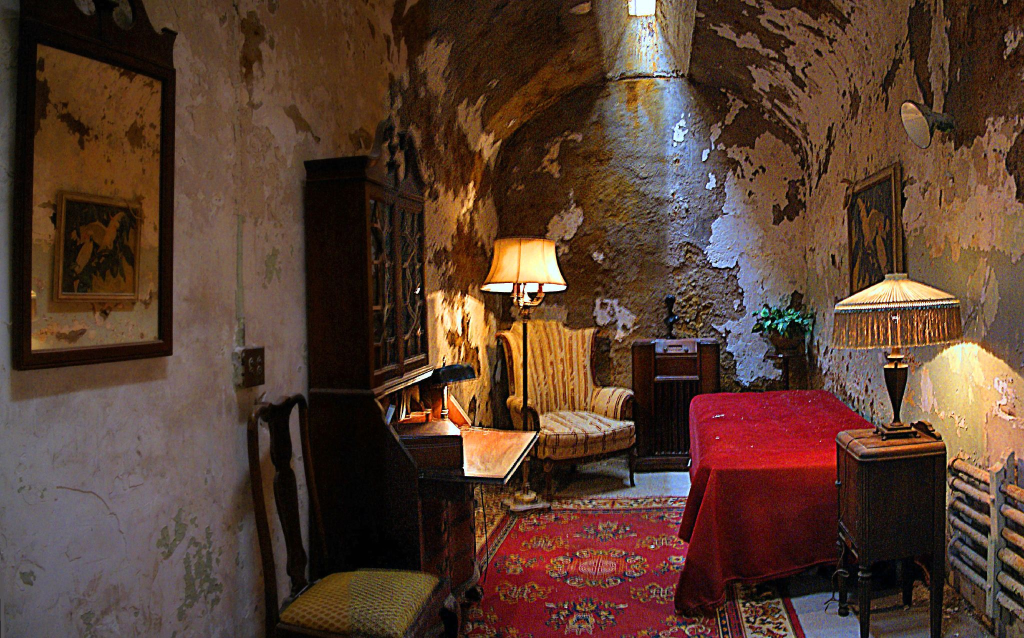 Al Capone was arrested in Philadelphia on a gun charge before he was incarcerated for tax-evasion. For 9 months he called this cell in Eastern State Penitentiary home. Al Capone's Cell in Eastern State Penitentiary, Philadelphia, Pennsylvania, USA The warden and guards at ESP gave special consideration to Mr. Capone during his stay, permitting him to hang artwork, tables and lamps, a velvet duvet, comfortable chair and an expensive radio... Capone enjoyed listening to waltzes after dinner.Al Capone's Cell In Eastern State Penitentiary